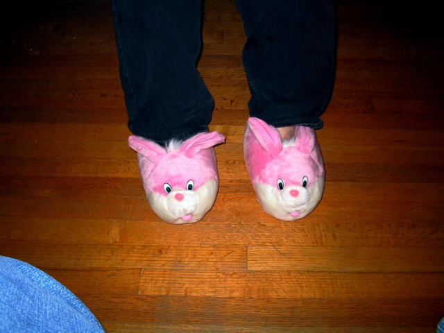 Everybody needs a pair of these.